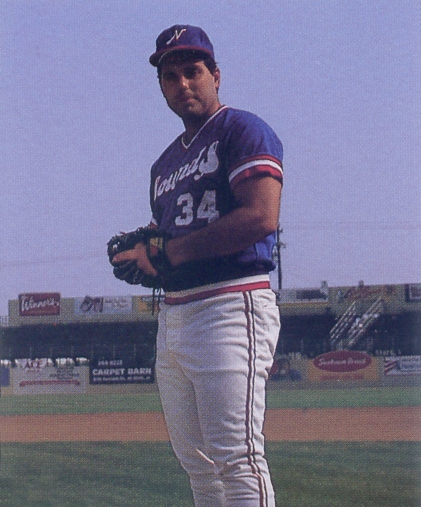 Pitcher Jack Lazorko of the 1986 Nashville Sounds Minor League Baseball team of the American Association